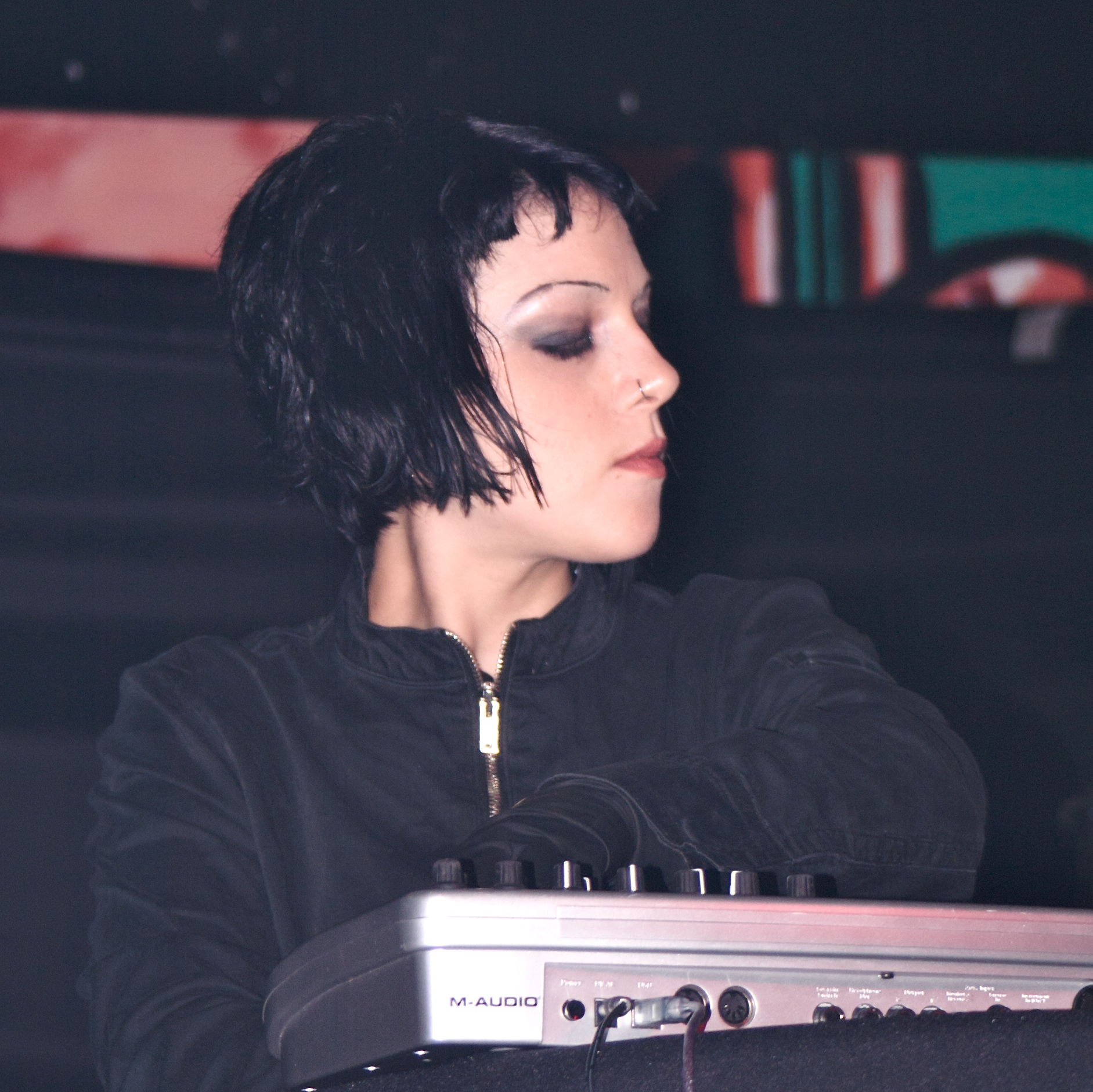 Unter Null aka Erica Dunham performing at Das Bunker, Los Angeles, CA, USA on July 18, 2008.